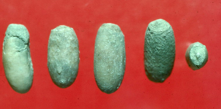 Eocene fossil bee nests from Wyoming